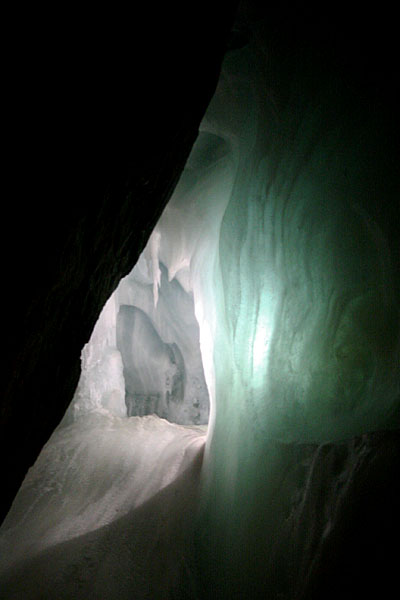 Eisriesenwelt Ice Caves